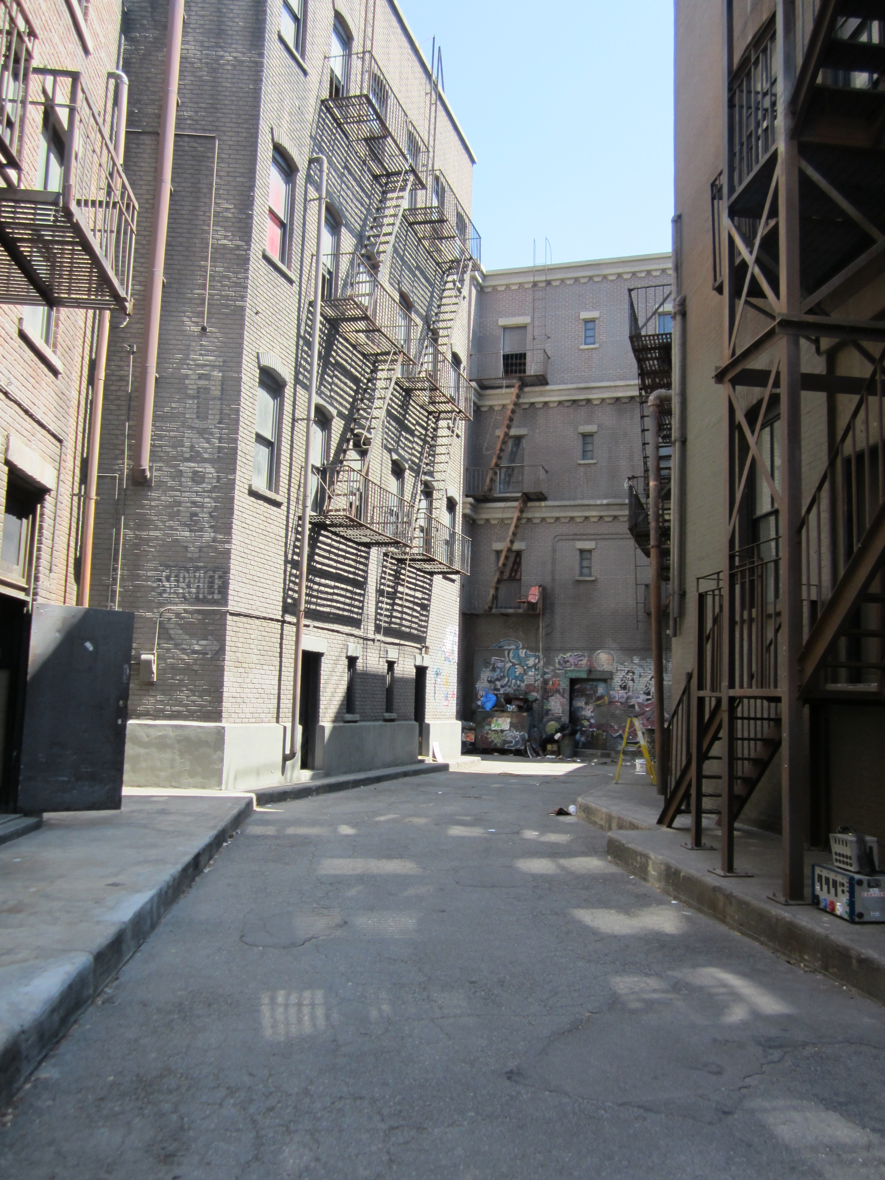 Set for the kiss scene from the film Spider-Man at the Warner Bros Studios, Los Angeles.